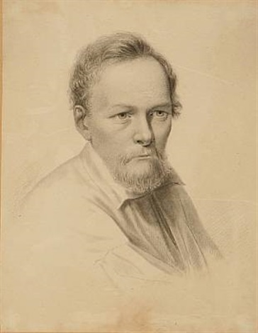 Portrait of the Danish sculptor and medalist Christen Christensen